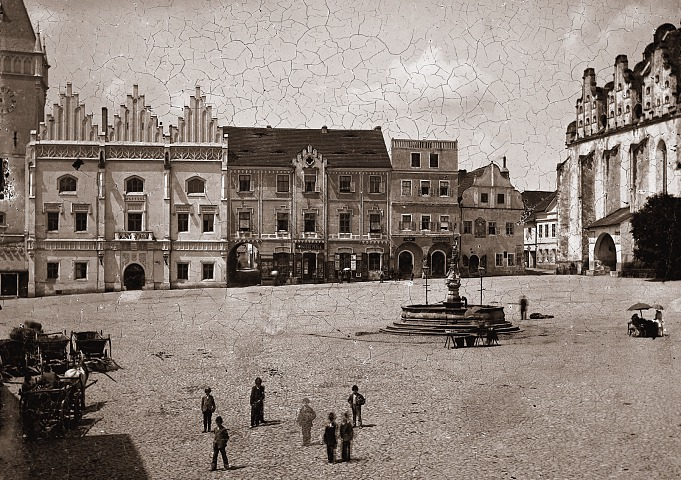 Táborské náměstí roku 1876. Ateliér Šechtl a Voseček.